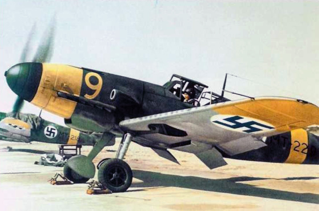 Finnish Air Force: Messerschmitt Bf 109 G-2 fighter at Helsinki Malmi airport in June 1943.